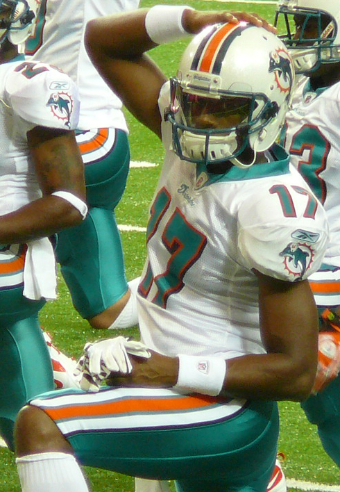 If used somewhere other than Wikipedia, Nelson, by name.